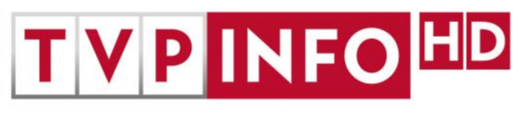 Logo of TVP INFO HD